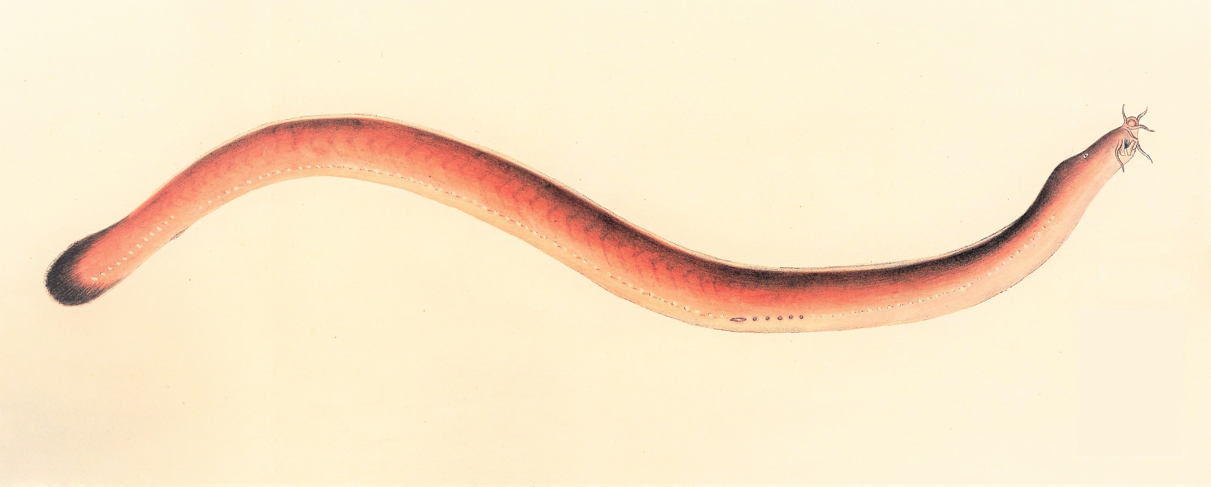 Eptatretus cirrhatus; illustration